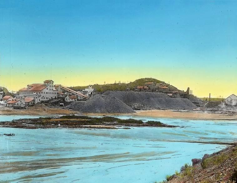 Photograph, glass lantern slide, Silver Mine, Cobalt, ON, about 1918, Anonymous. Silver salts and transparent ink on glass - Gelatin dry plate process - 8 x 10 cm